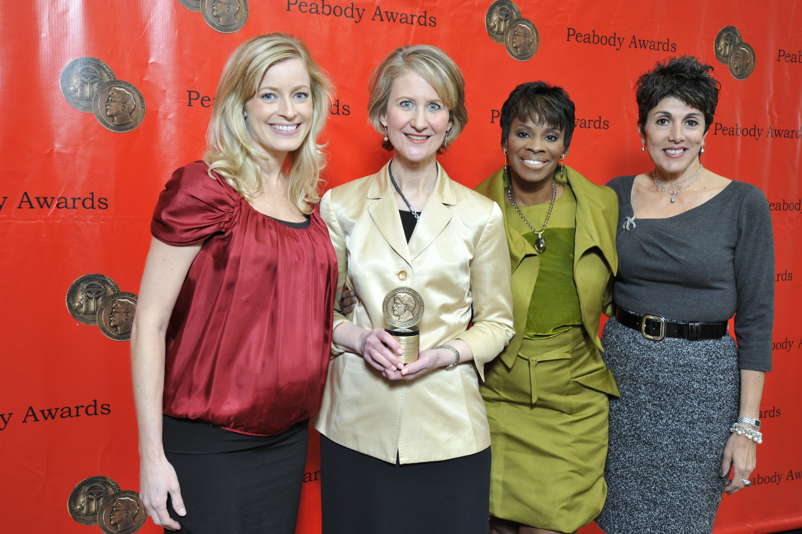 Tera Williams, Carol Fowler, Darlene Hill and Lilia Chacon 69th Annual Peabody Awards Luncheon Waldorf=Astoria Hotel New York, NY USA May 17, 2010